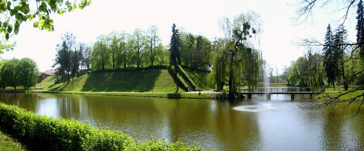 Town Park in Zamość - pond with fountain and former bastion IV